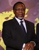 South African President Kgalema Motlanthe at the Summit on Financial Markets and the World Economy Saturday, Nov. 15, 2008 in Washington D.C.